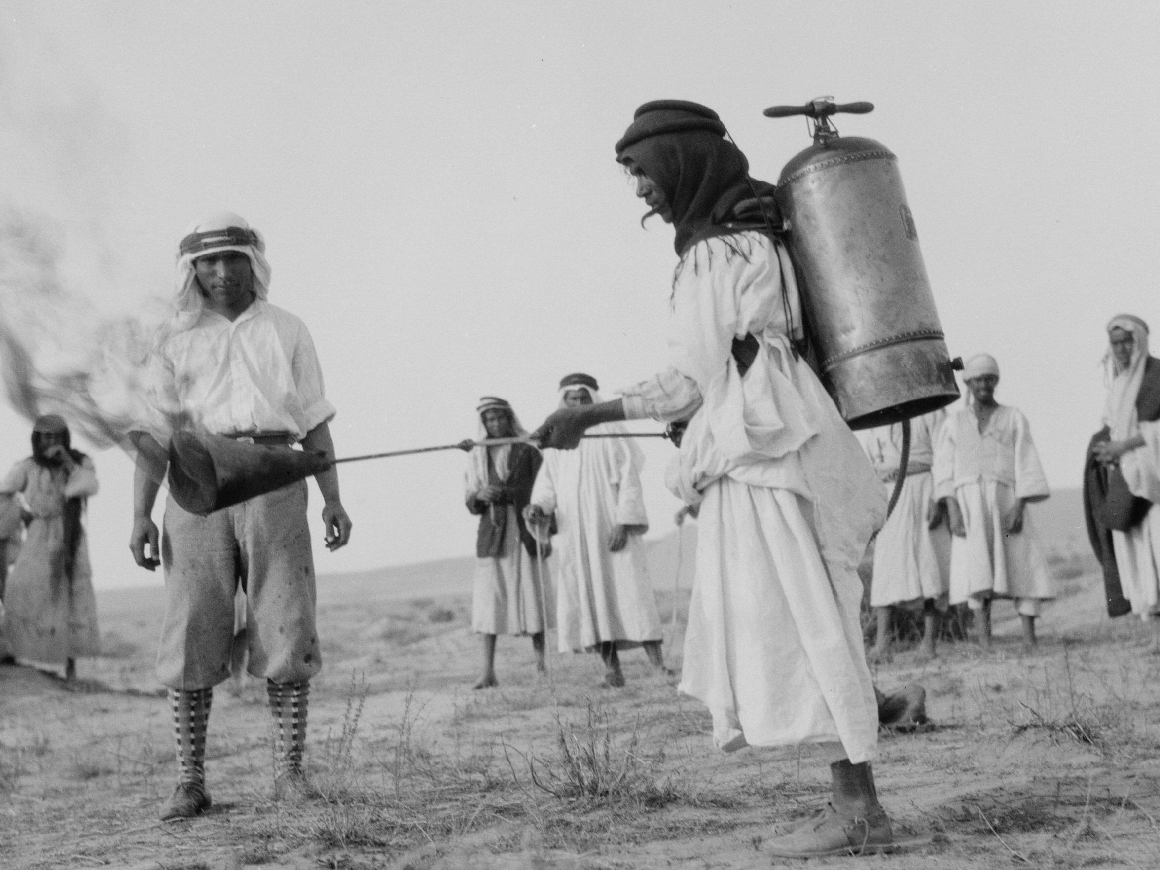 Locust plague of 1930, flamethrower used to exterminate locusts. After the locusts have been herded into the metal pit, fire is applied gratuitously to the pile using flamethrowers such as the one pictured here in order to exterminate the swarm before it can take flight and wreak havoc on the countryside. The image was apparently taken in or around Palestine in 1930, as described here. See also: Close of the 1930 locust campaign. Bedouins racing and feasting at Beersheba on June 30th, 1930. Bedouins seated for the festive meal